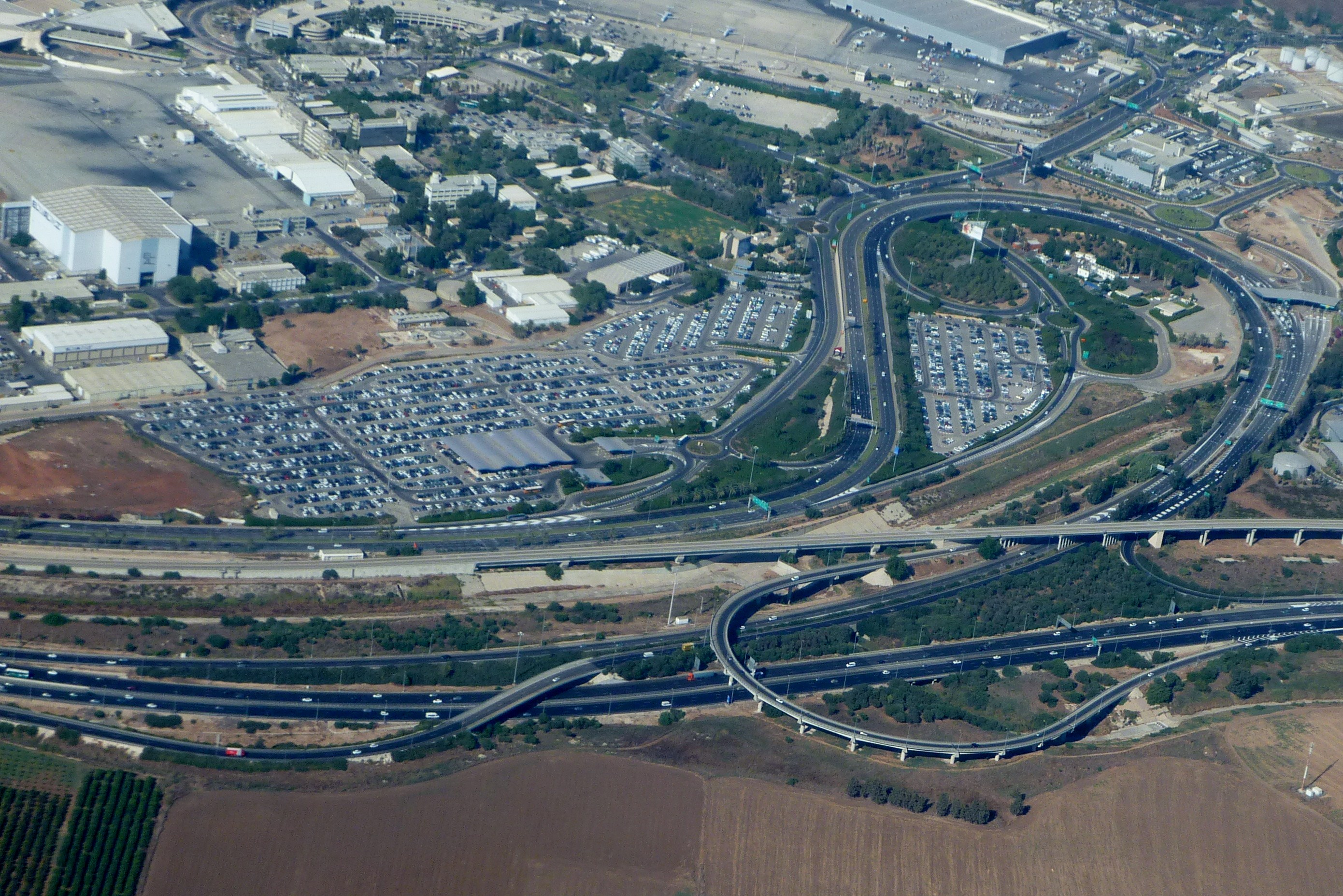 Ben Gurion interchange, Israel. Aerial photograph